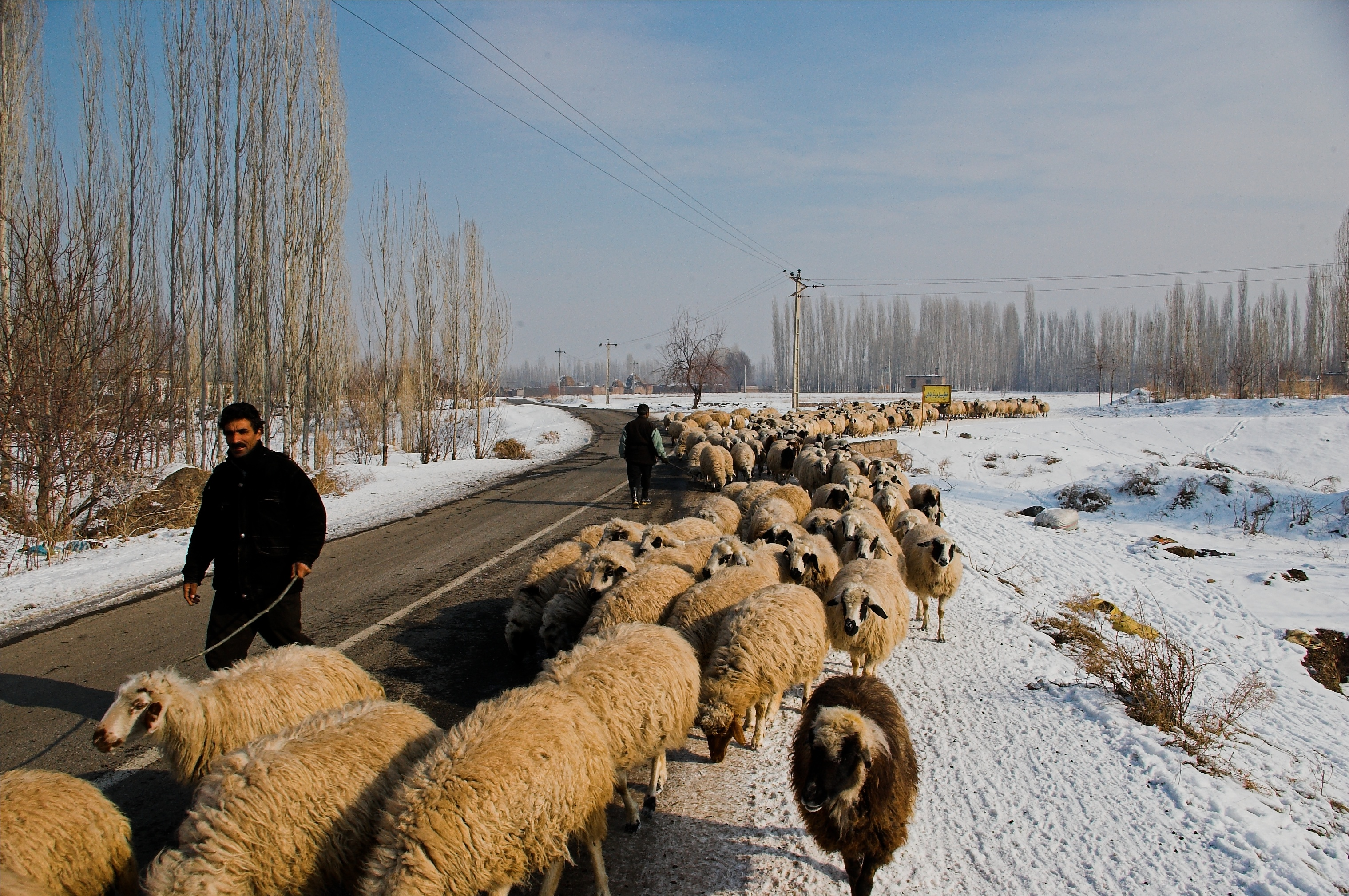 Shepherds moving their sheeps, between Khoy and Pasak-e Sofla, north-western Iran.